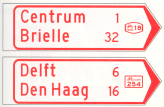 K7: Signposts for cyclists and moped riders (finger posts) showing local and intermediary destinations, municipal cycle route numbers (above) and showing intermediary destinations and intermediary cycle route numbers (below).